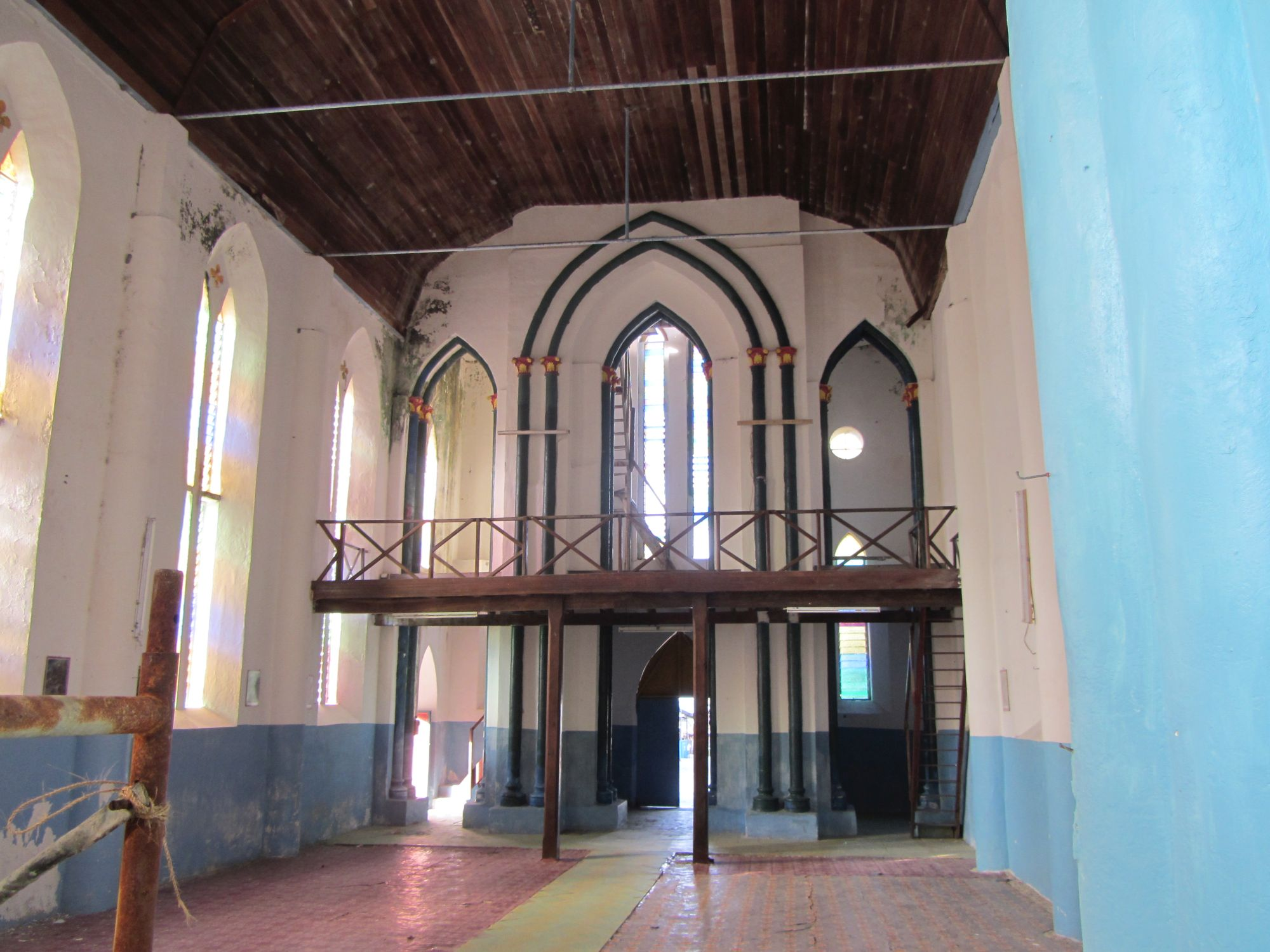 Koinawa Cathedral inside view